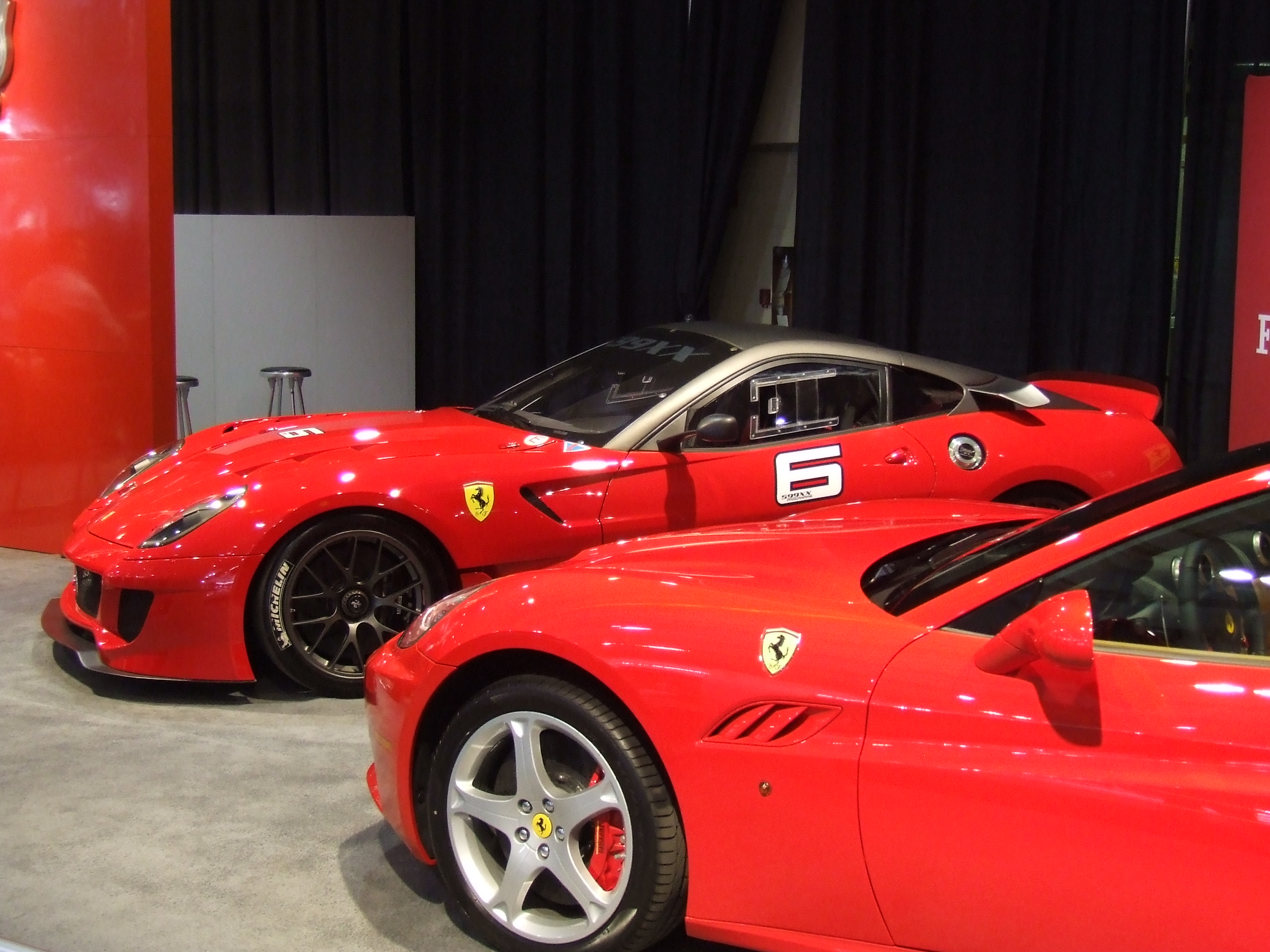 Ferrari 599XX, behind a Ferrari California, 2010 Canadian International AutoShow.